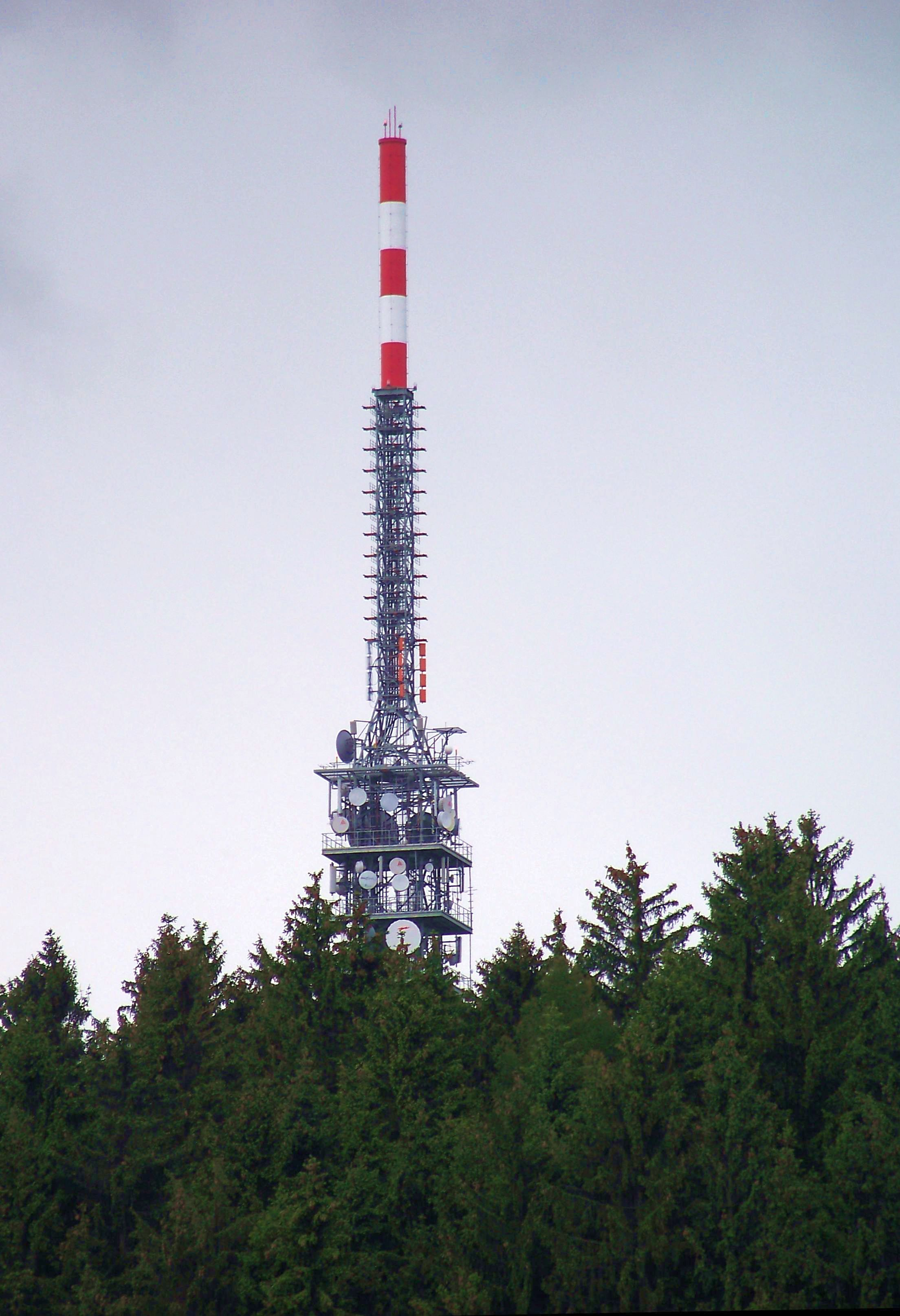 Neustupov, Benešov District, Central Bohemian Region, the Czech Republic. Mezivrata Hill.